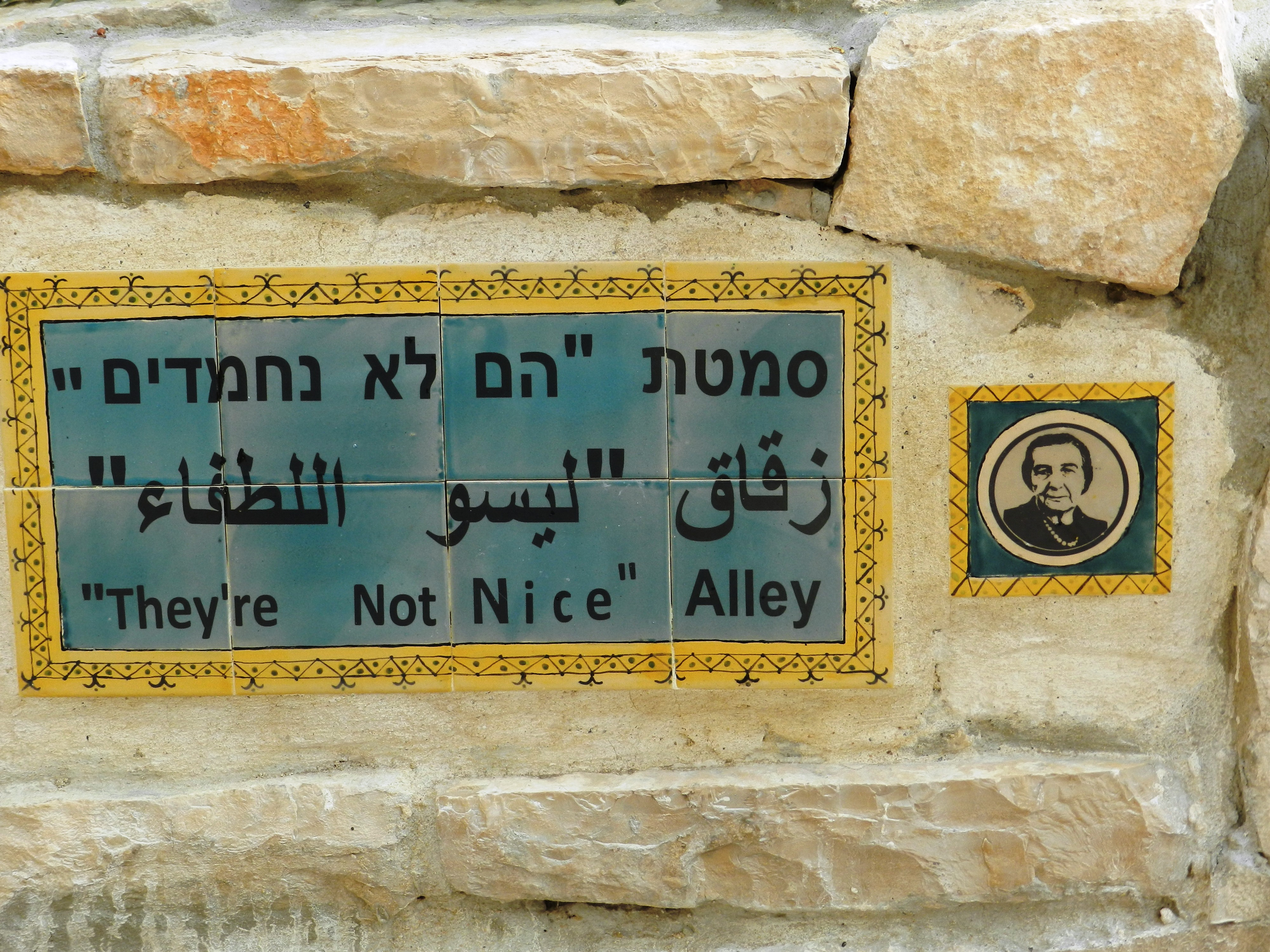 The Black Panthers social movement of Sephardi/Oriental Jews originated in the Musrara neighborhood in the early 70's. Then Israeli Prime Minister Golda Meir said "They are not nice people" (Hebrew: hem lo nekhmadim). This alley is named for her saying. It's possible that the Arabic would be more correctly ليسوا لطفاء.